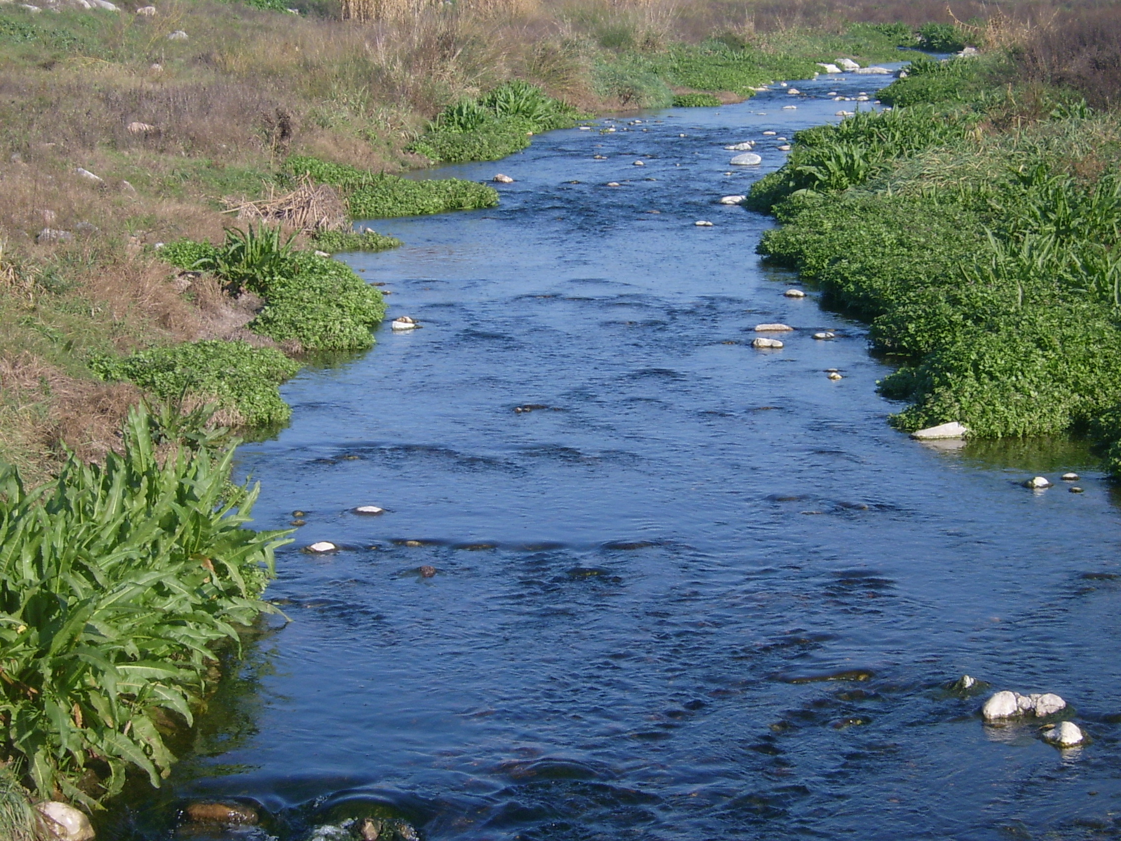 Congost river near Granollers